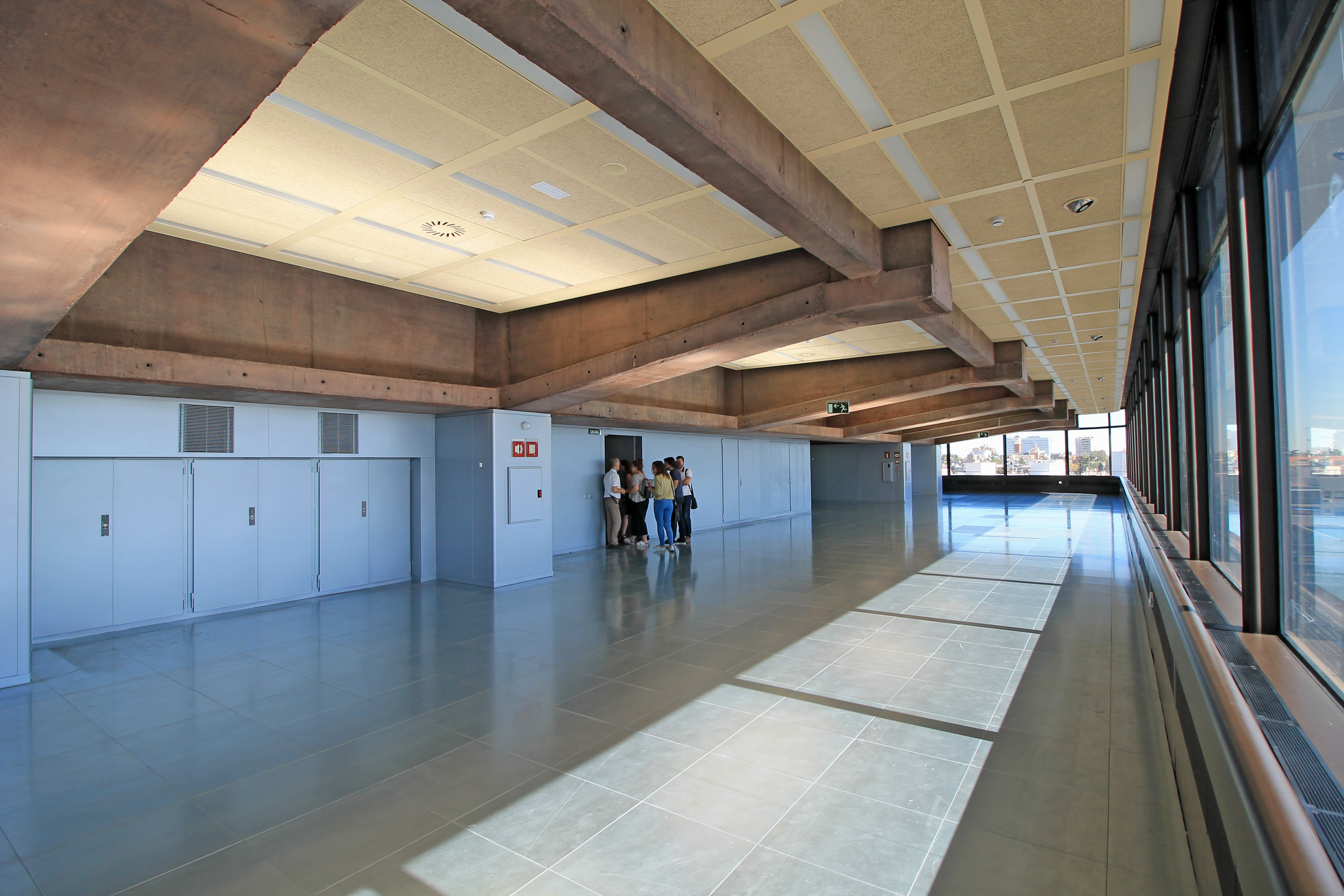 Eleventh floor of Castellana 81 building in Madrid (Spain).